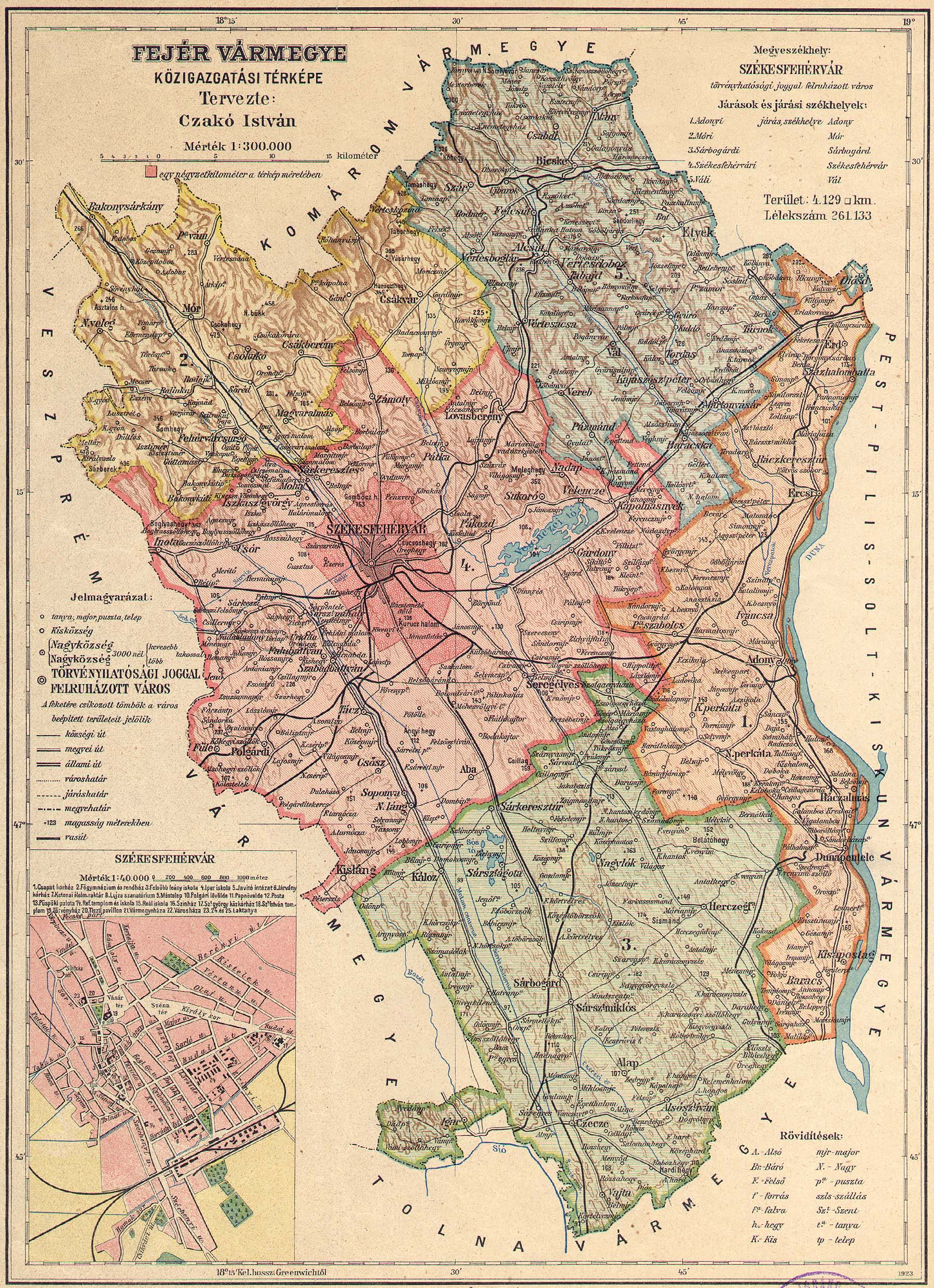 Administrative map of the county of Fejér in the Kingdom of Hungary